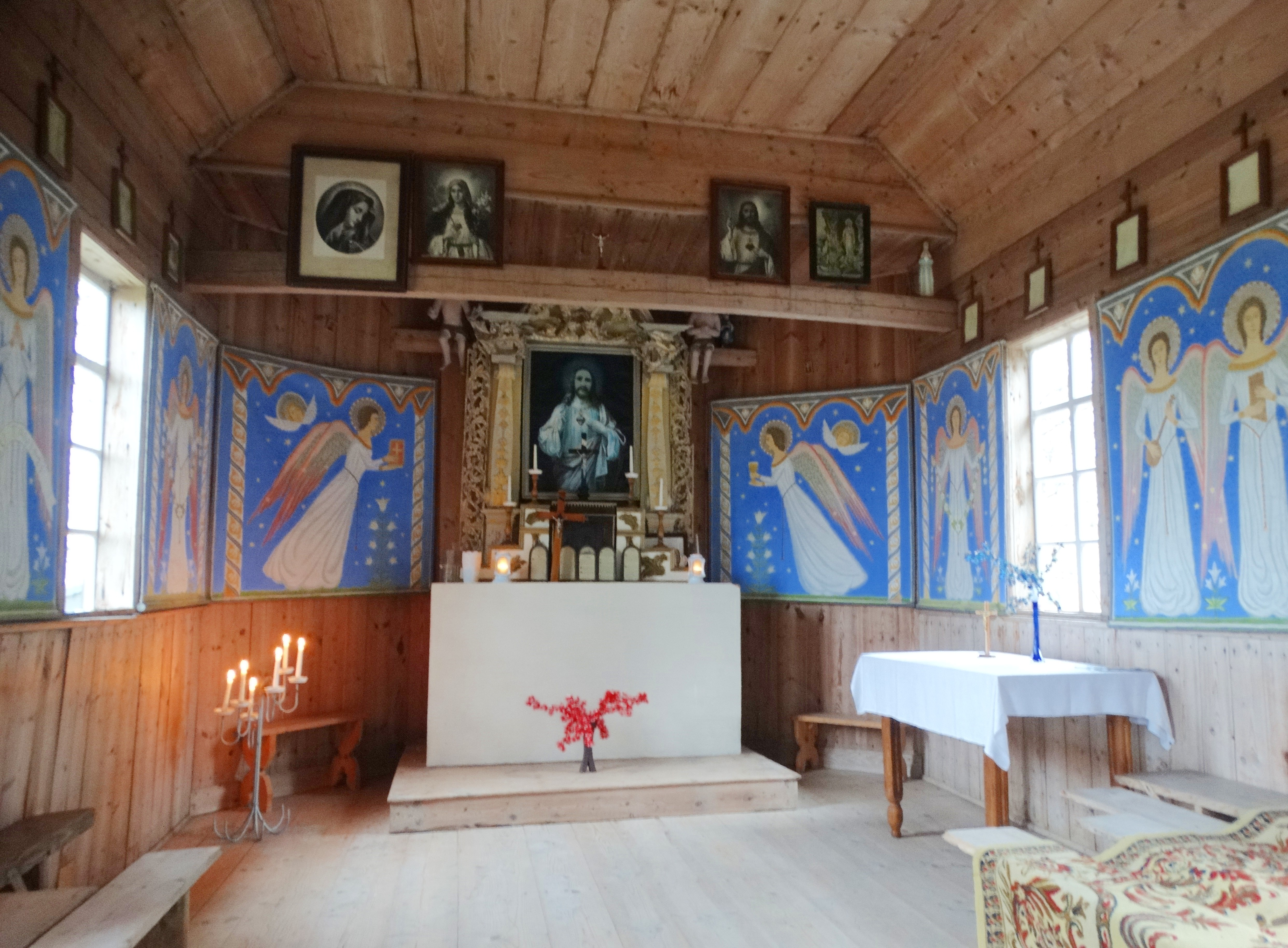 Chapel, Abakai, Kretinga District, Lithuania